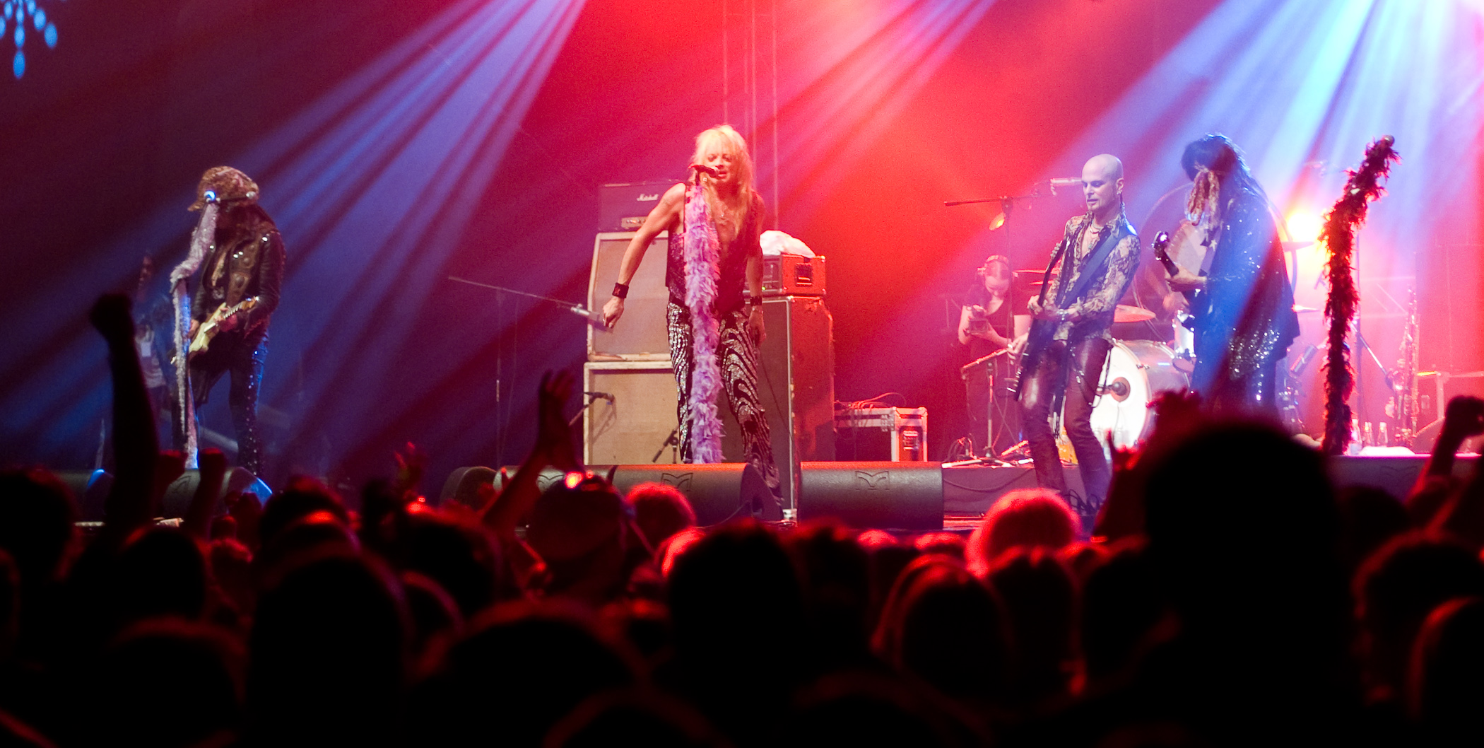 Hanoi Rocks performing at the Ilosaarirock festival on the 11th of July 2008 in Joensuu, Finland.